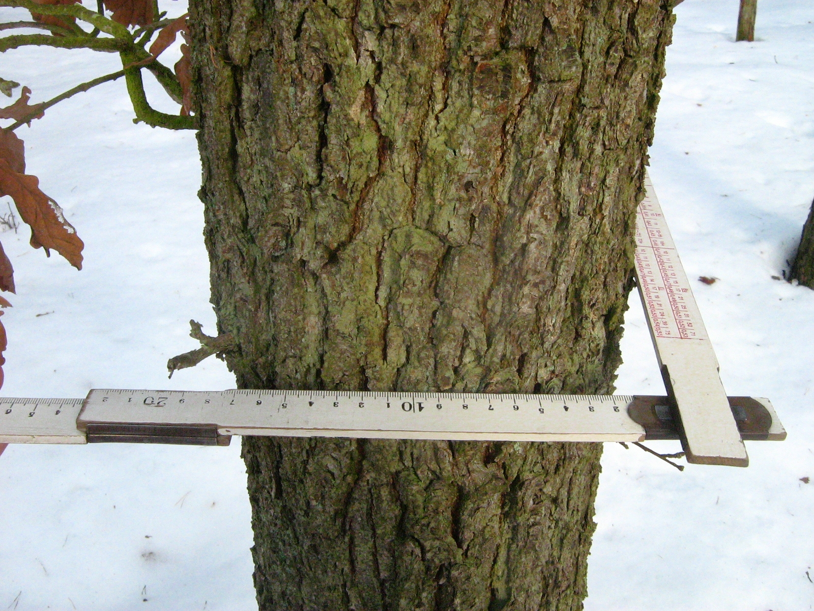 A bitterlich stick as half thigh caliper for measuring of Diameter (DBH).